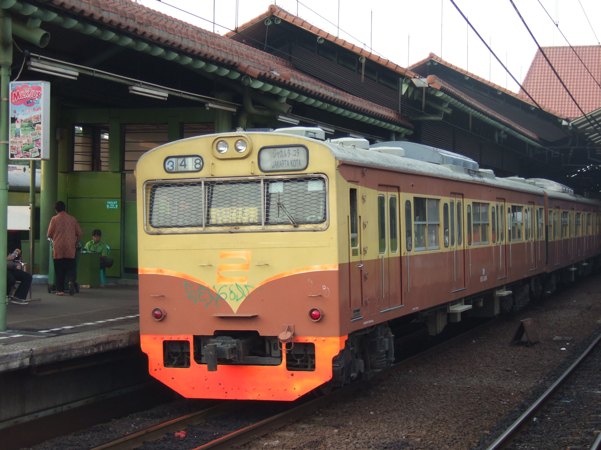 A former JR 103 series EMU on a Depok Express (air-conditioned train connecting Depok-Jakarta Kota) in Indonesia